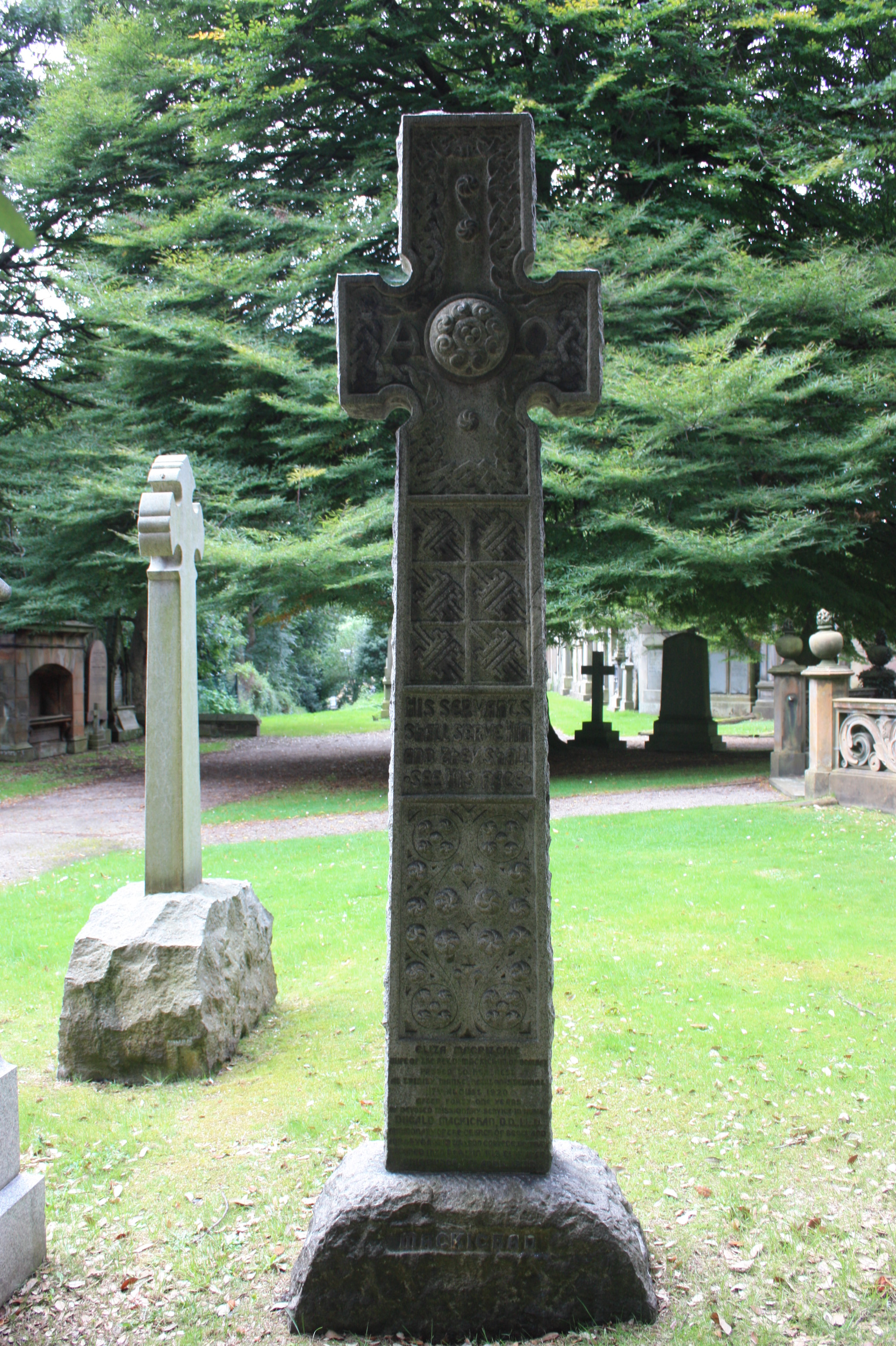 The grave of Very Rev Dugald Mackichan, Dean Cemetery, Edinburgh